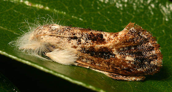 Acrolophus sp.